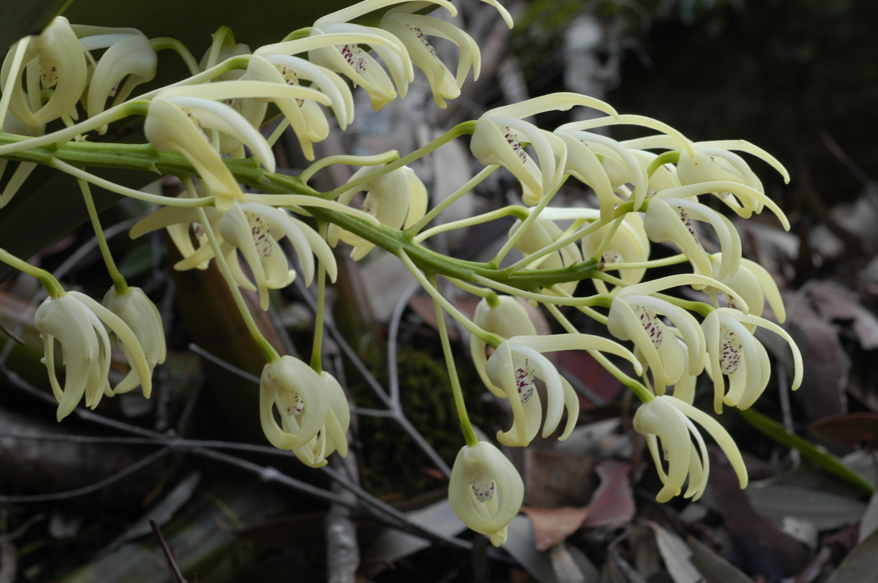 Sydney Rock Orchid, Dendrobium speciosum